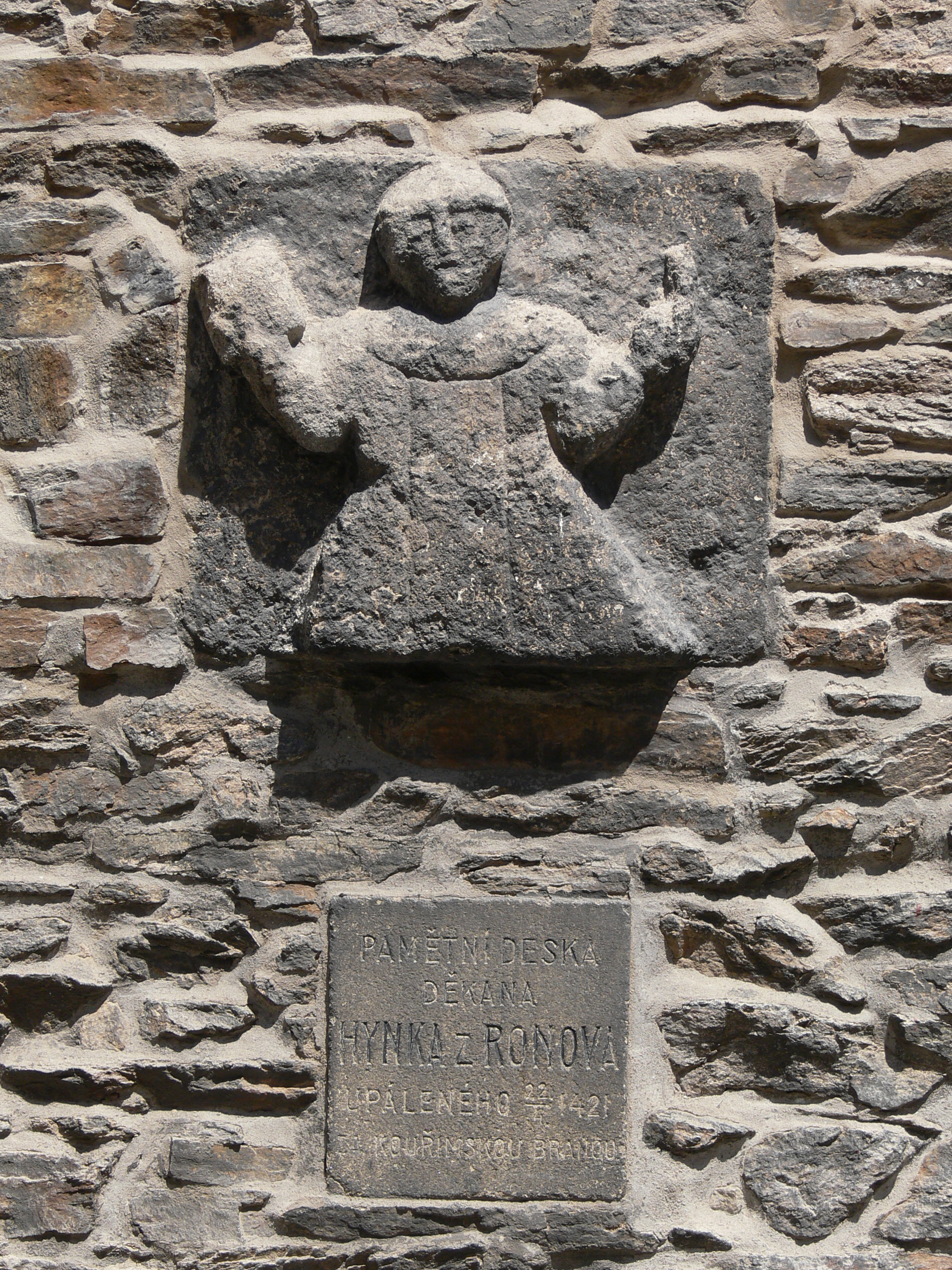 A memorial plaque of Hynek of Ronov, a dean in Kolín (CZ), burned by hussites in 1421